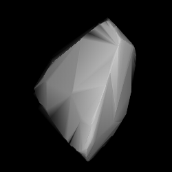 3D convex shape model of 961 Gunnie, computed using light curve inversion techniques. J. Hanuš, J. Ďurech, M. Brož, B. D. Warner (June 2011). "A study of asteroid pole-latitude distribution based on an extended set of shape models derived by the lightcurve inversion method". Astronomy and Astrophysics 530: A134. ISSN 0004-6361. arXiv